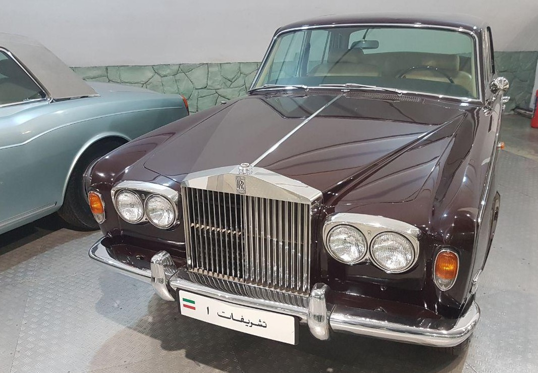 Rolls-Royce Silver Shadow in Sa'dabad Complex's Royal Car Museum